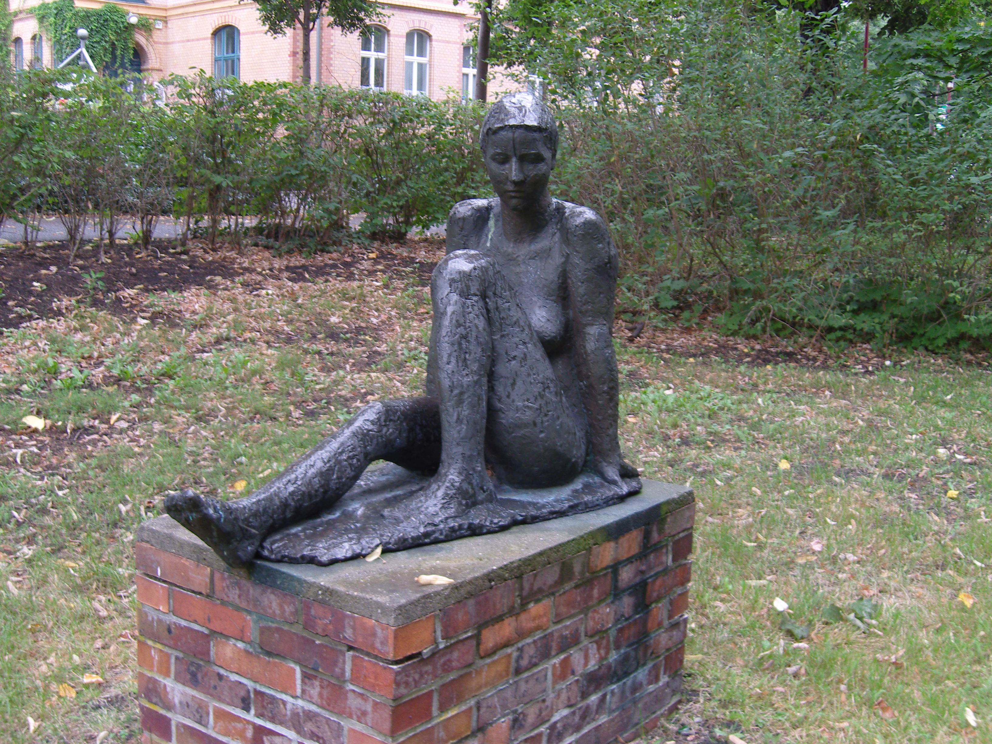 A sculpture by Siegfried Krepp, situated in the in the Senftenberg Schloßpark, of a sitting woman